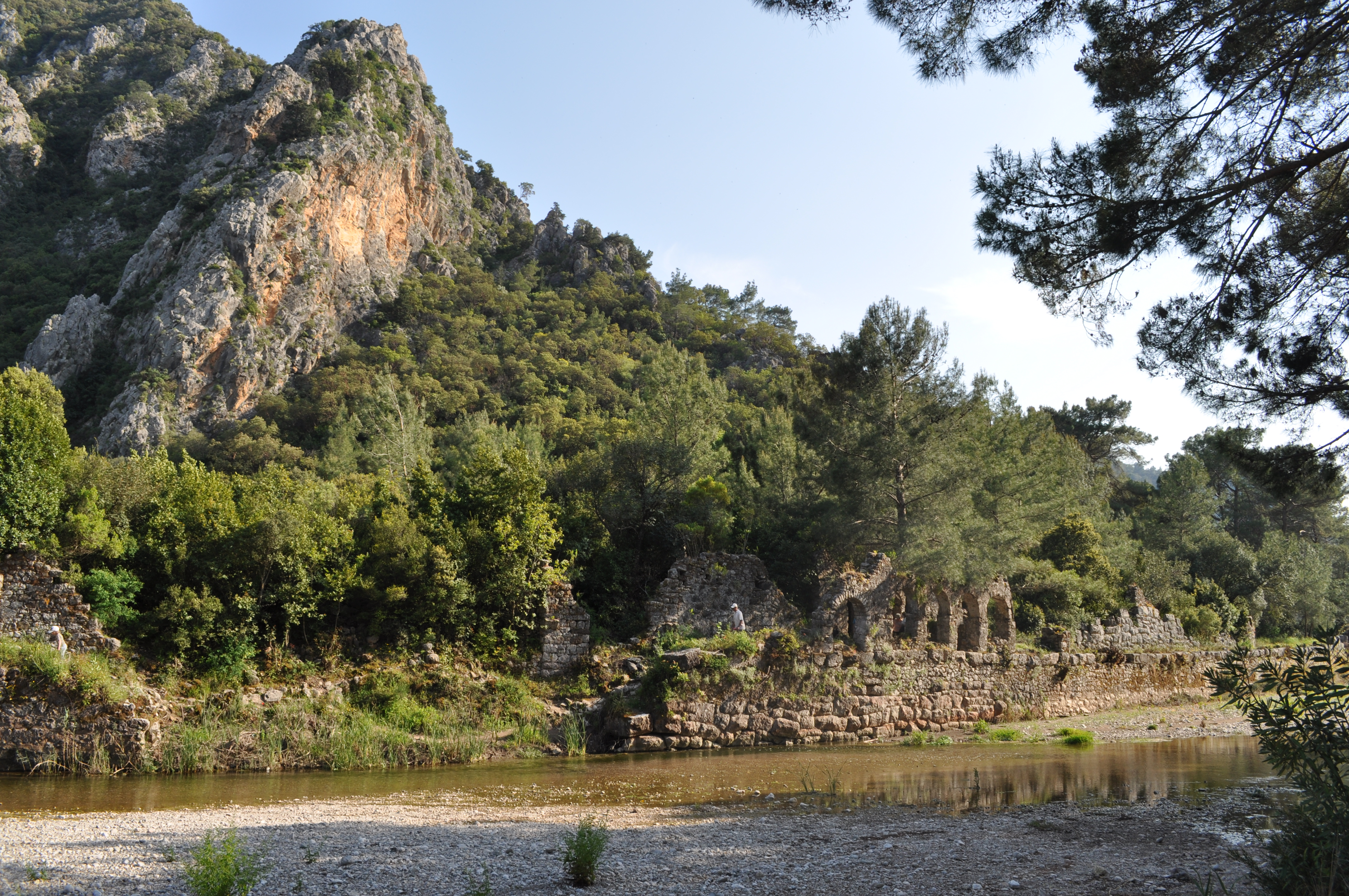 Olympos: total view